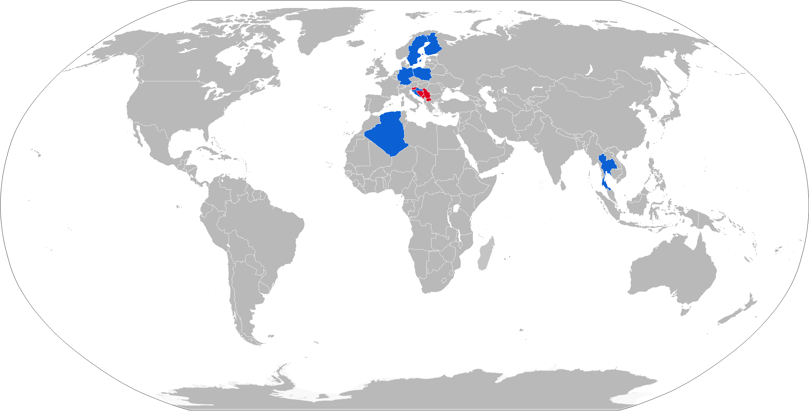 Map with RBS-15 operators in blue and former operators in red